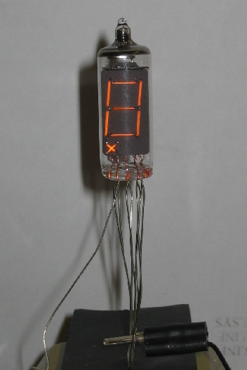 An incandescent light. It was one of the first seven segment displays. Electrical filaments were annealing in the evacuated glass cylinder and wich can be used as a display.